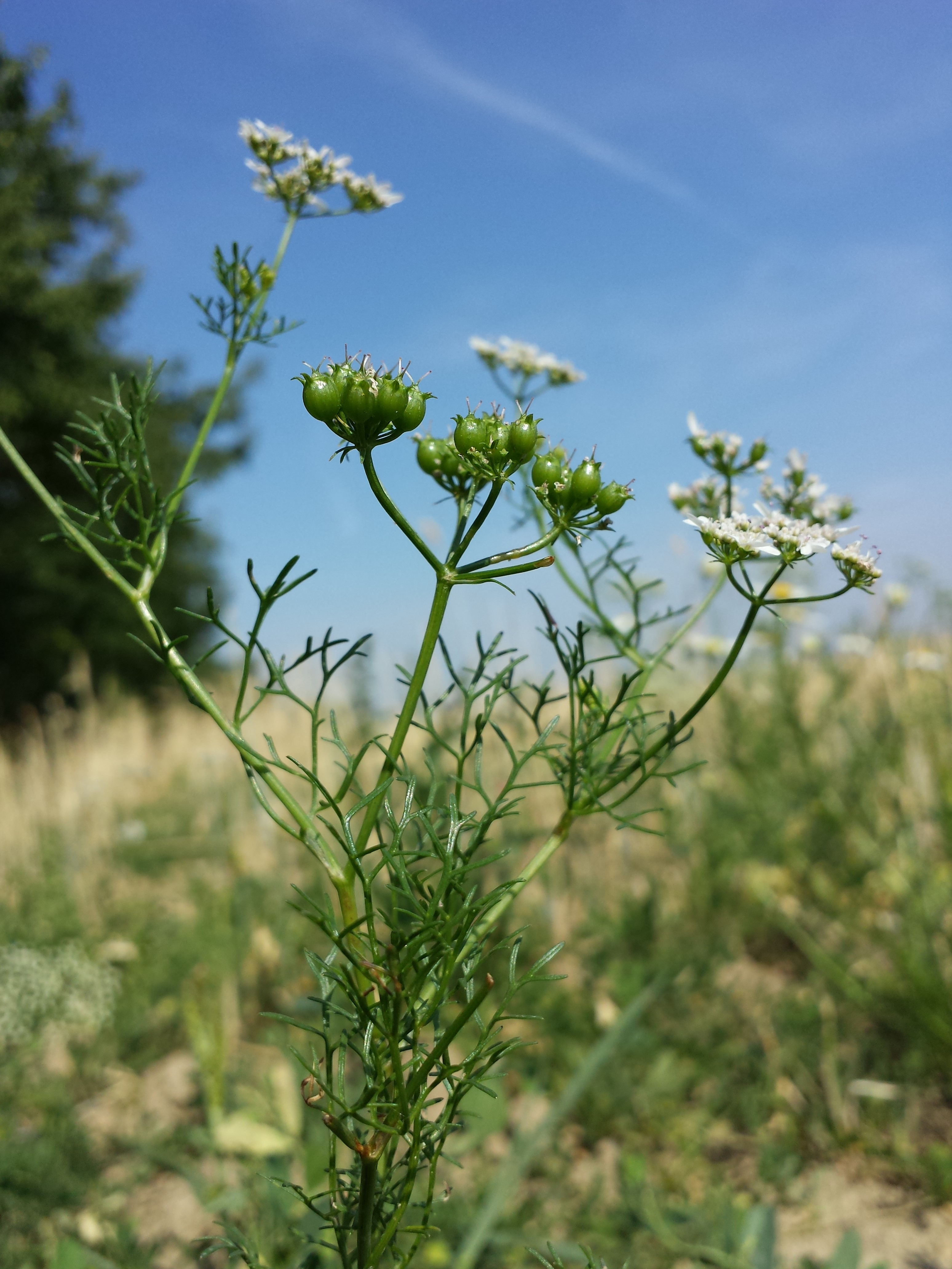 Inflorescences/Infructescence Taxonym: Coriandrum sativum ss Fischer et al. EfÖLS 2008 ISBN 978-3-85474-187-9 Location: Dernberg, Nappersdorf-Kammersdorf, district Hollabrunn, Lower Austria - ca. 280 m ü. A. Habitat: field